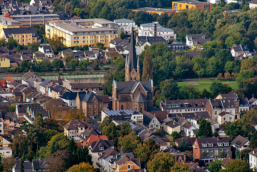 Catholic Church of St Severin, Bad Godesberg